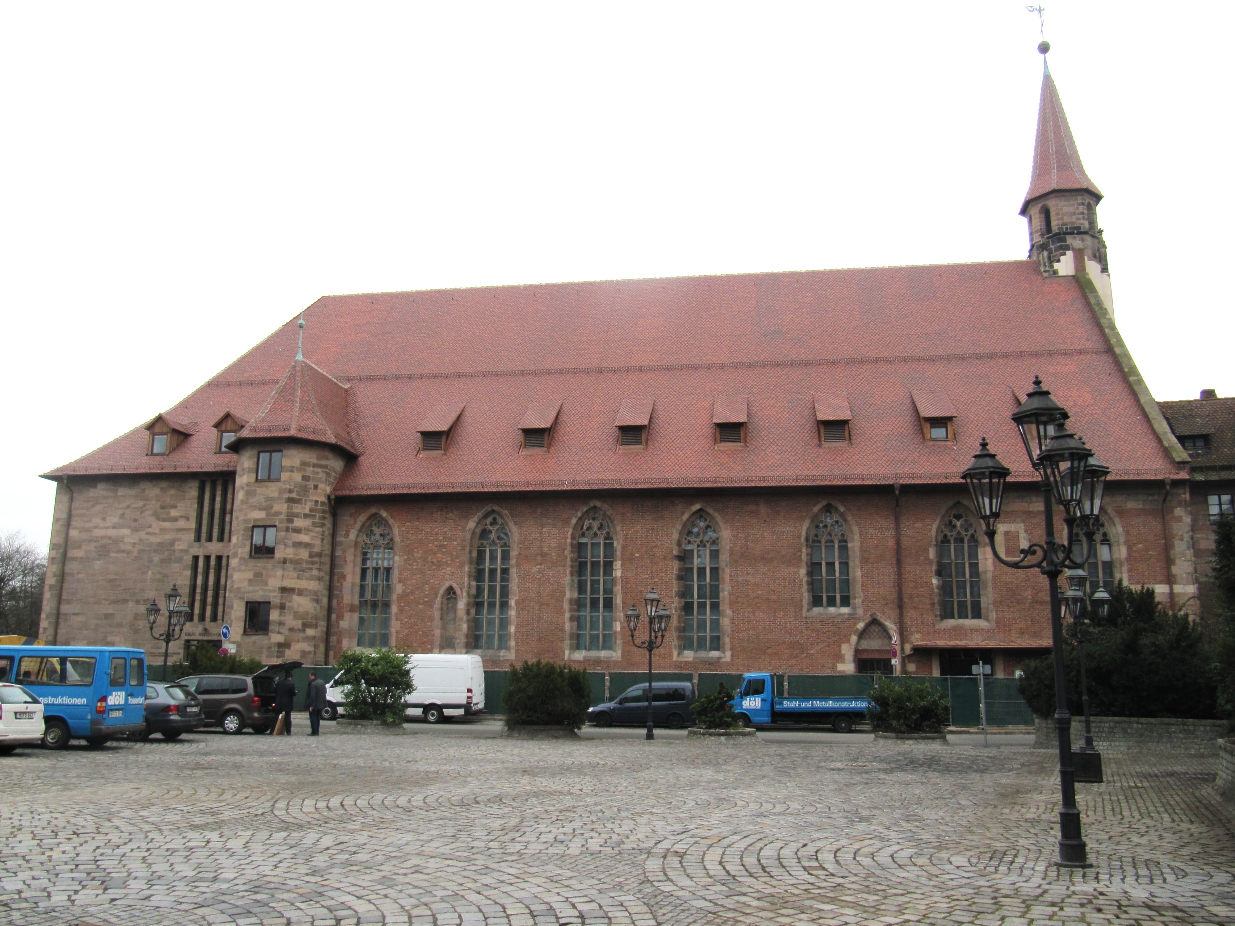 Heilig-Geist-Haus, Casa Internacional de Núremberg